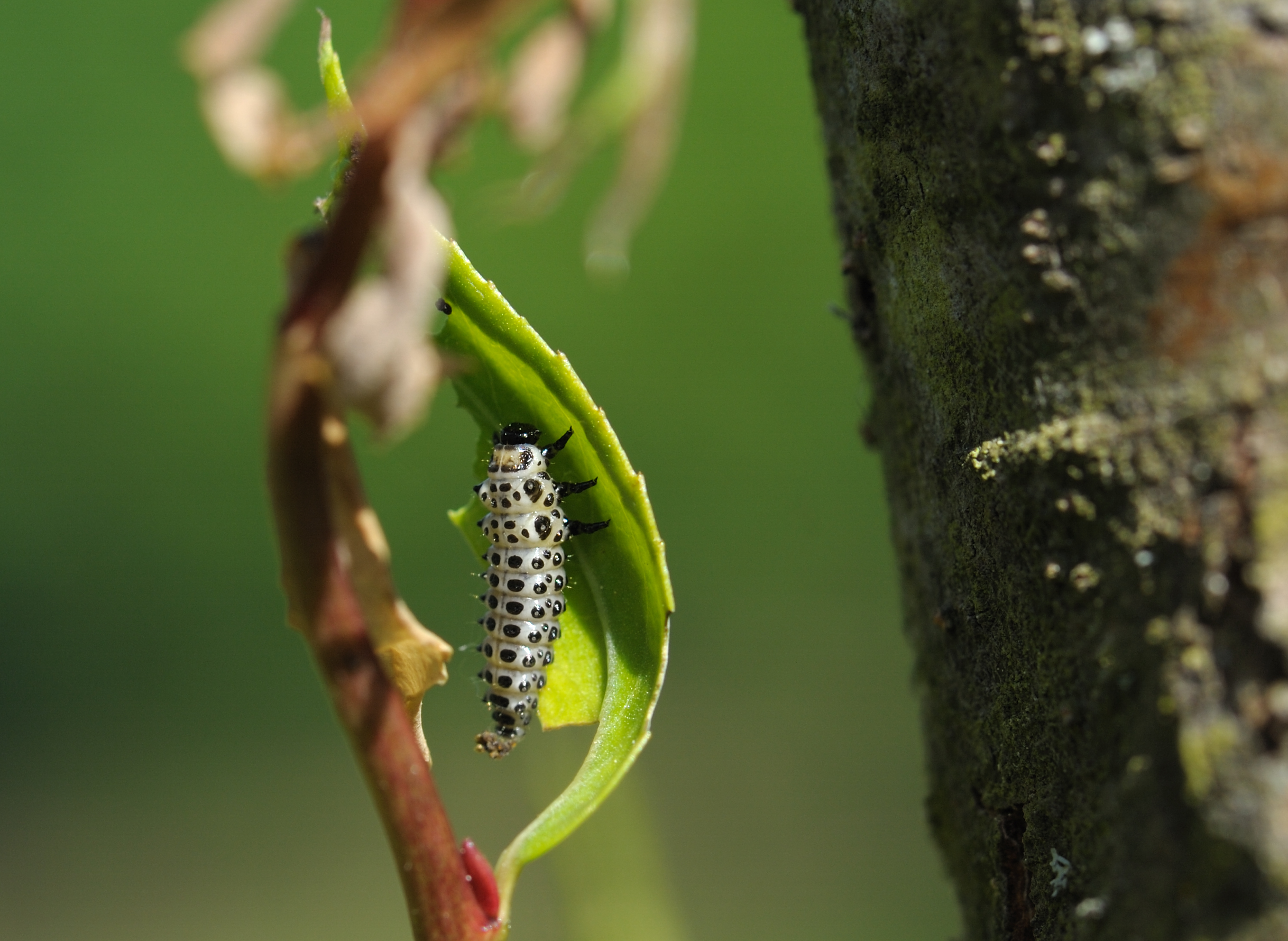 Chrysomela vigintipunctata